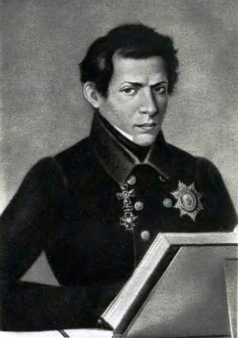 Nikolay Ivanovich Lobachevsky